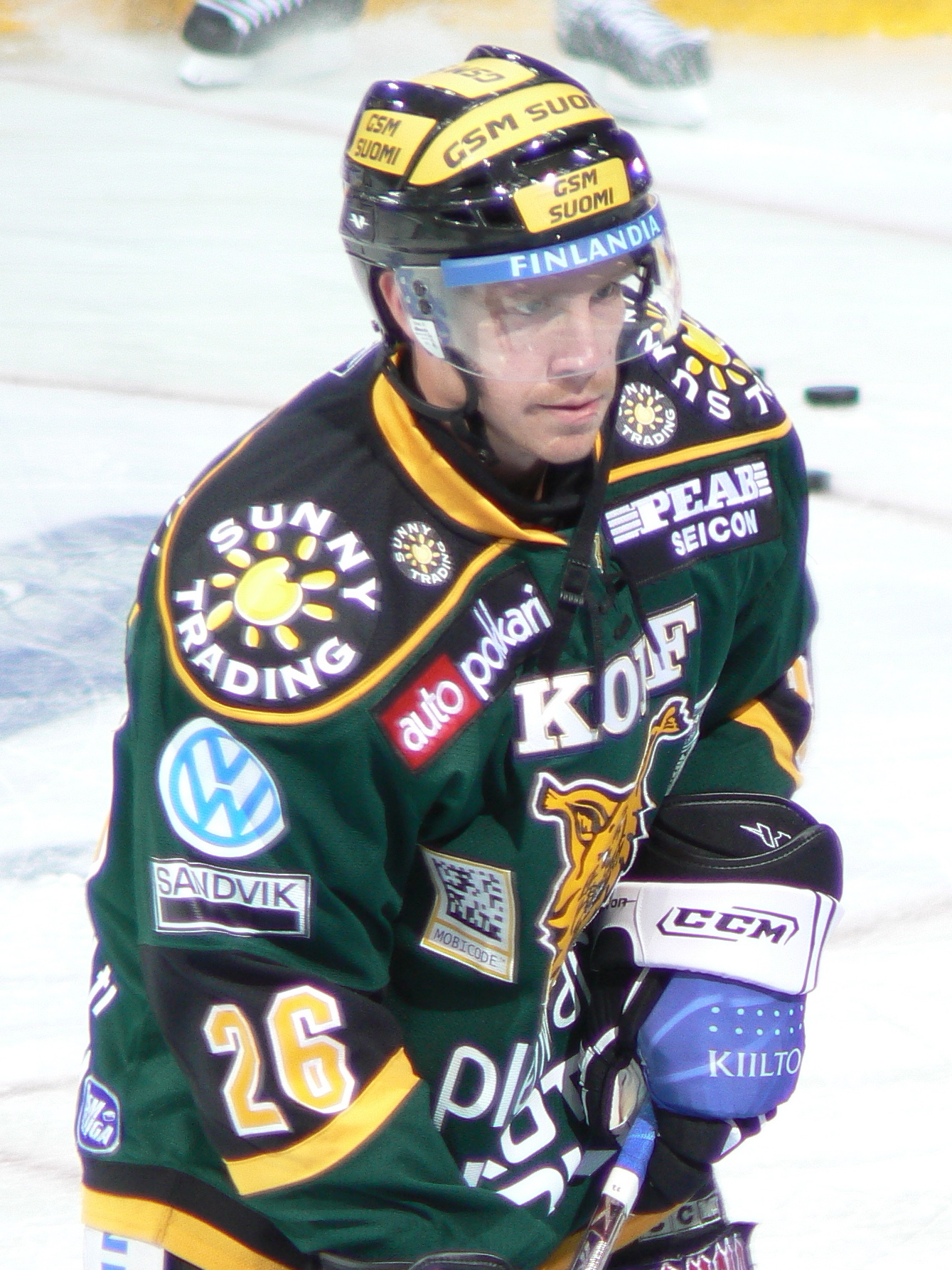 Canadian ice hockey forward Colby Genoway playing for Ilves Tampere in September 2008.